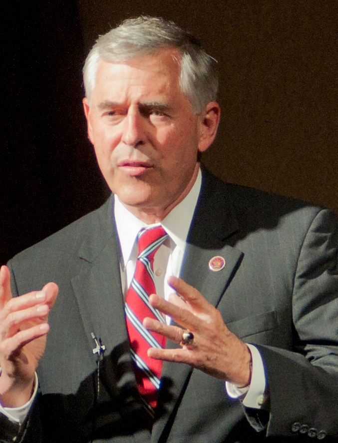 Virginia Sen. John Edwards visited Roanoke College in October for a presentation and question-and-answer session about his reelection campaign. Roanoke's College Democrats sponsored his appearance.